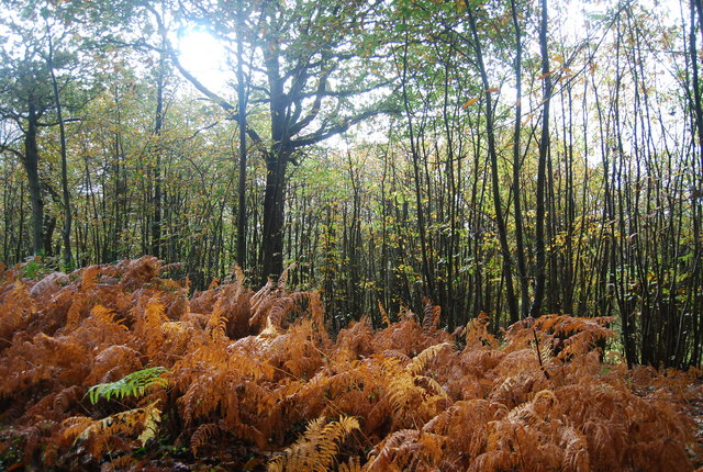 Autumnal coloured Bracken in Fore Wood This woodland is a RSPB Reserve.